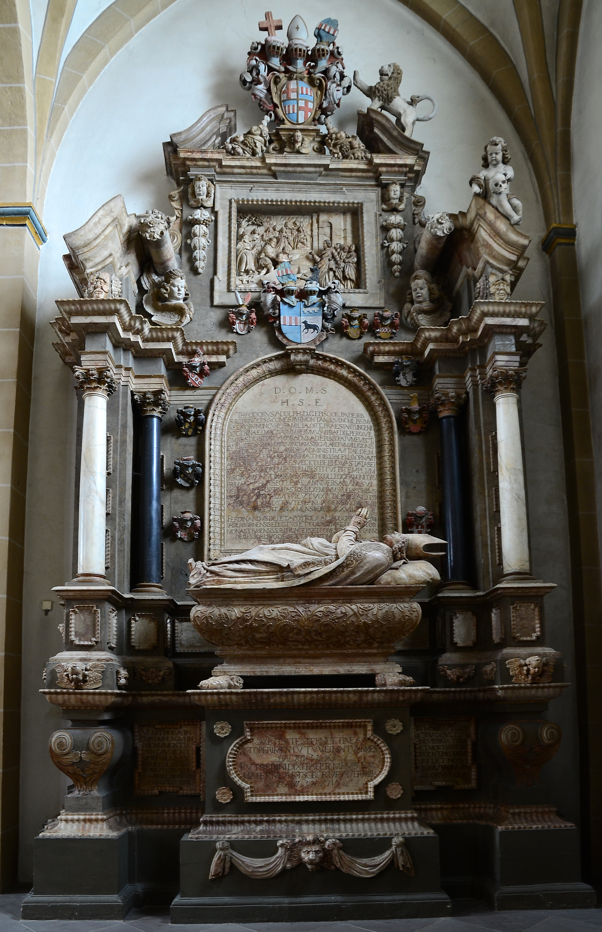 Paderborn Cathedral, Tomb of Bishop Dietrich Adolf von der Recke Paderborn, North Rhine Westphalia, GermanyThis is a photograph of an architectural monument., no. 3